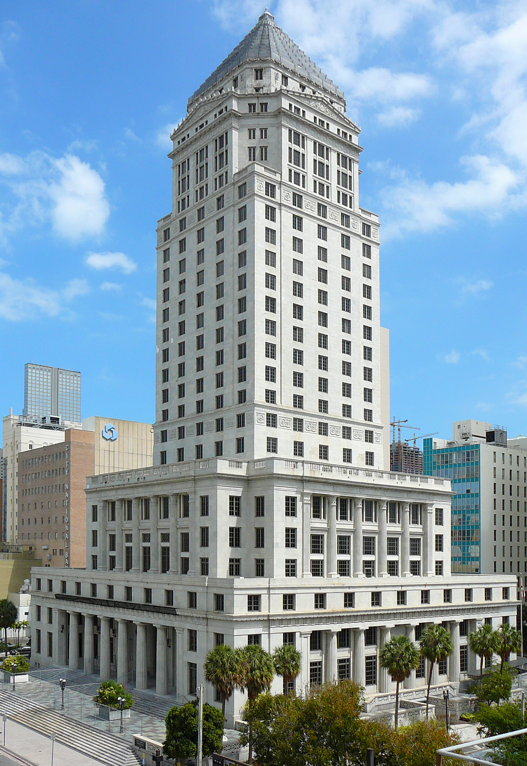 Digital photo taken by Marc Averette. The Dade County Courthouse at 73 East Flagler Street in downtown Miami 3/5/2007.